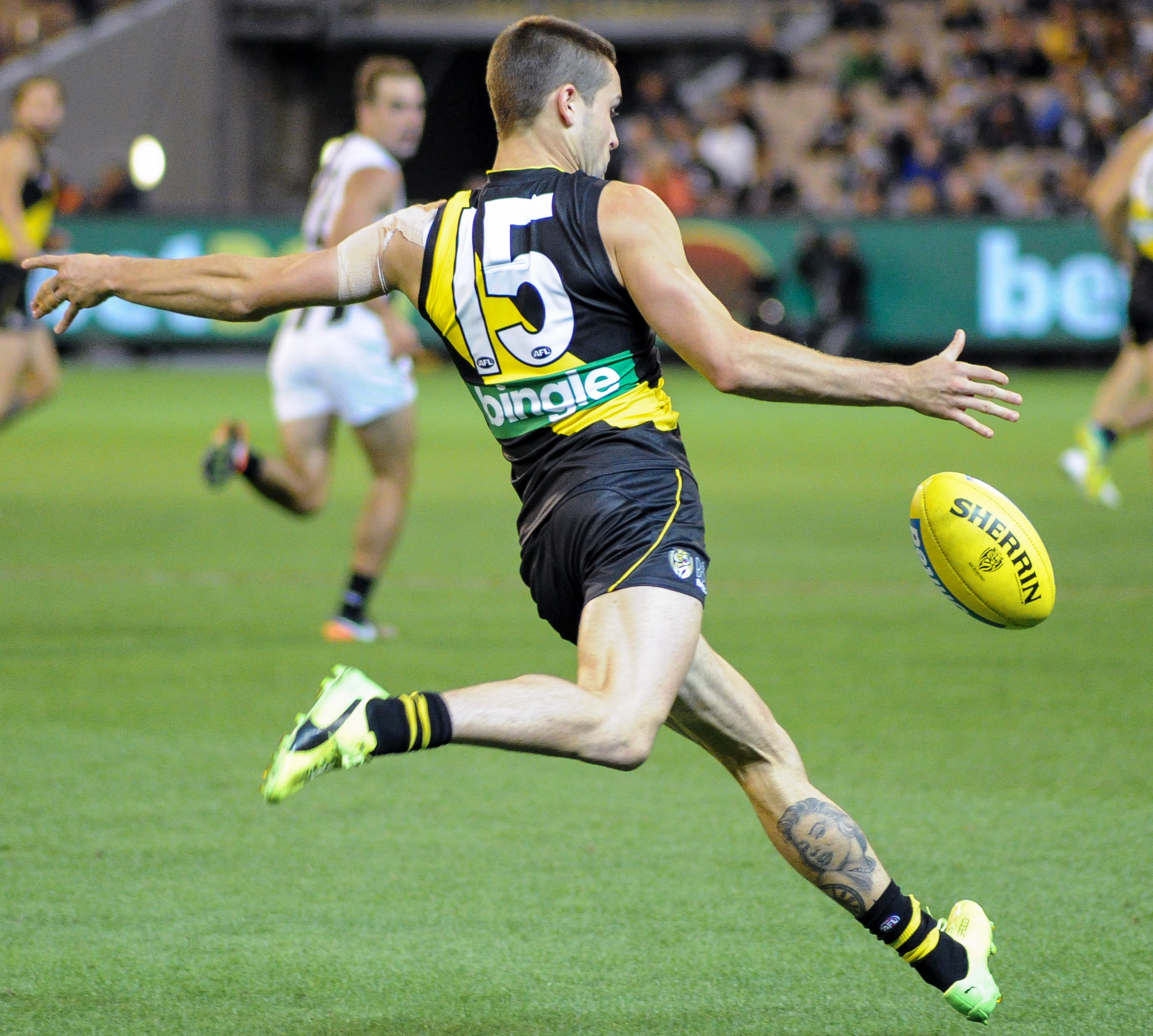 Jayden Short kicking during the AFL round two match between Richmond and Collingwood on 30 March 2017 at the Melbourne Cricket Ground in Melbourne, Victoria.